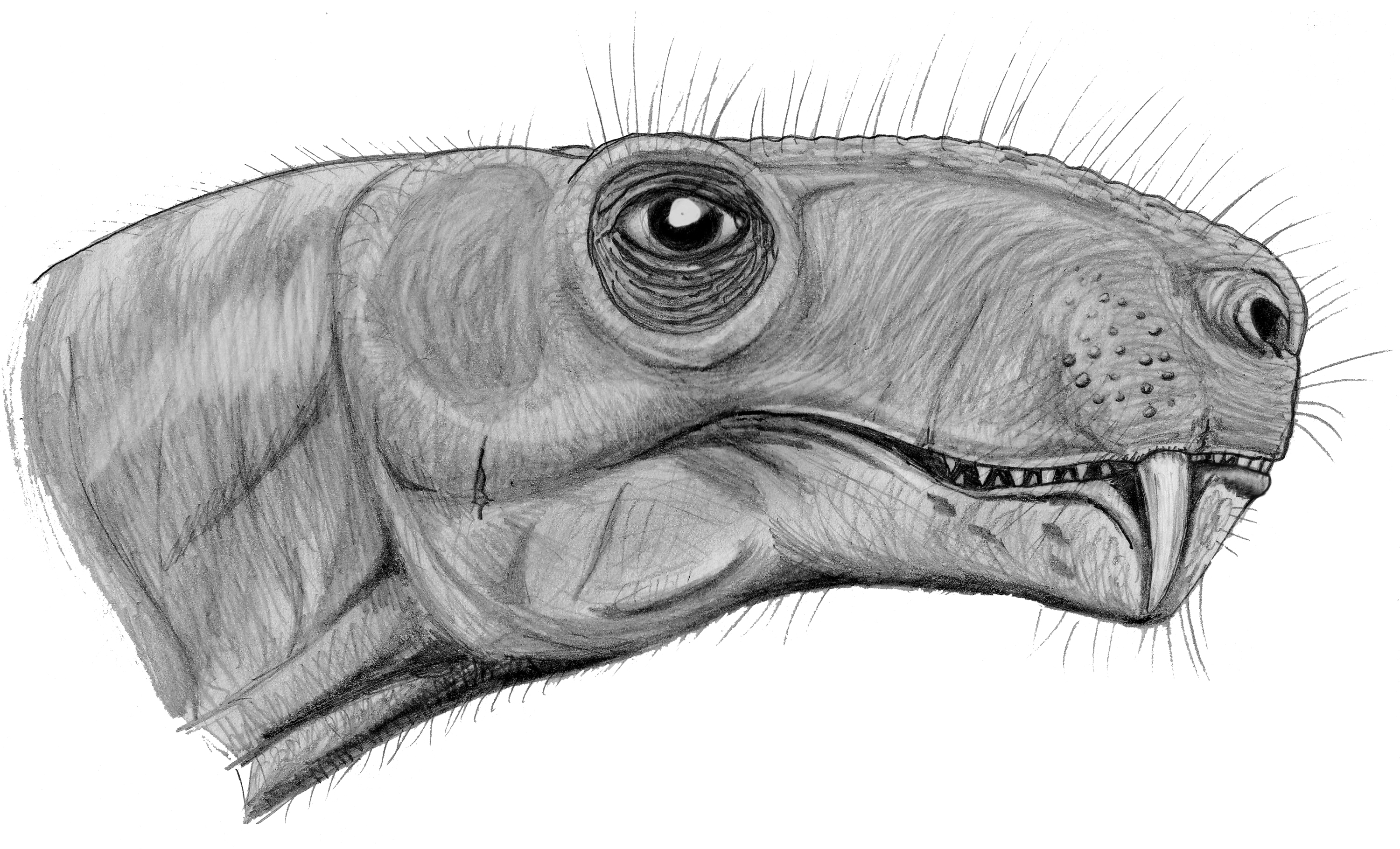 Head of Pravoslavlevia parva - small gorgonopsian from Late Permian of North Dvina